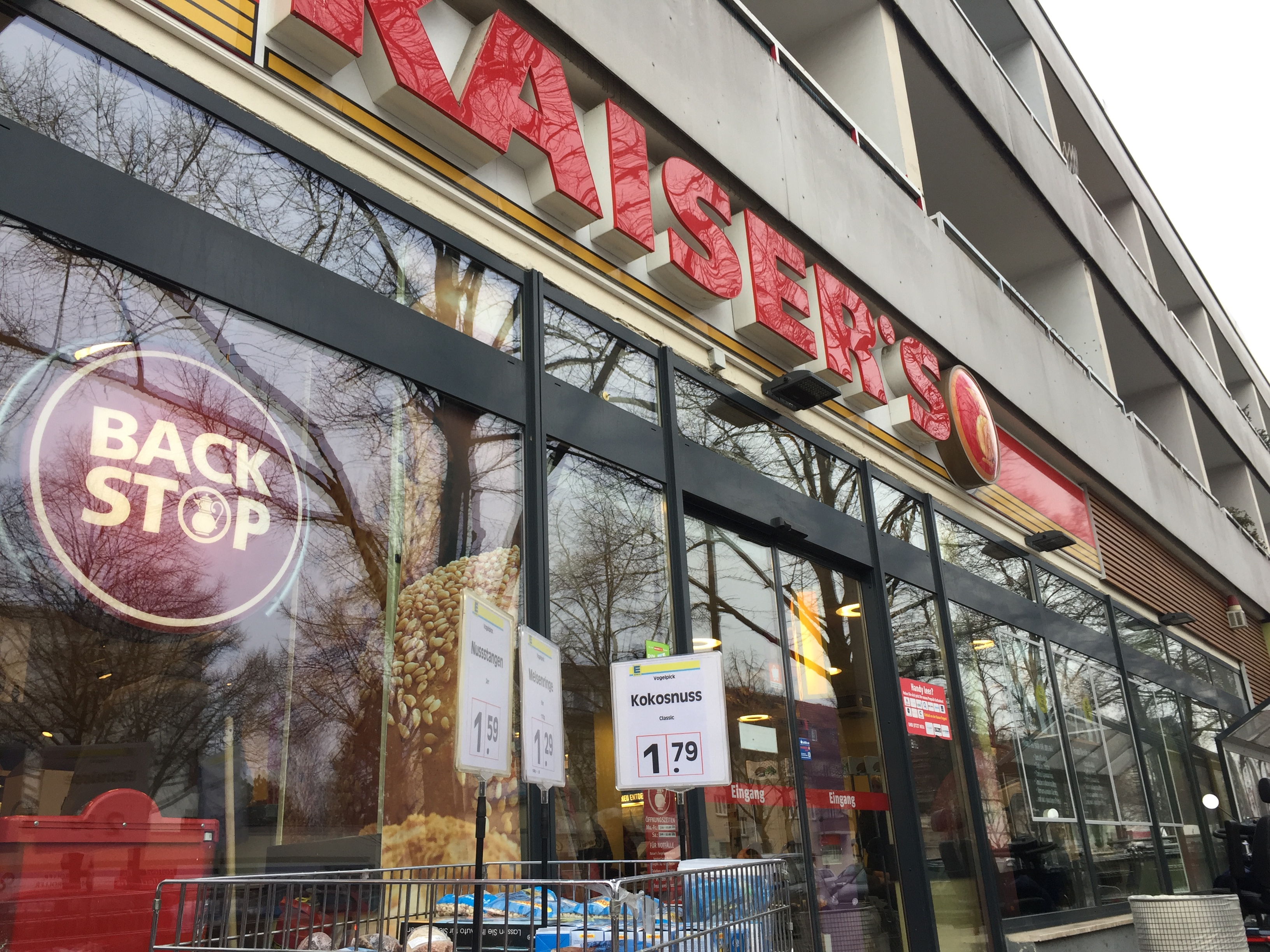 Branch of the German supermarkt chain Kaiser's in Berlin-Mariendorf a few weeks after it has been sold to EDEKA, still wearing the old logos. The price tags in the foreground are already by EDEKA.